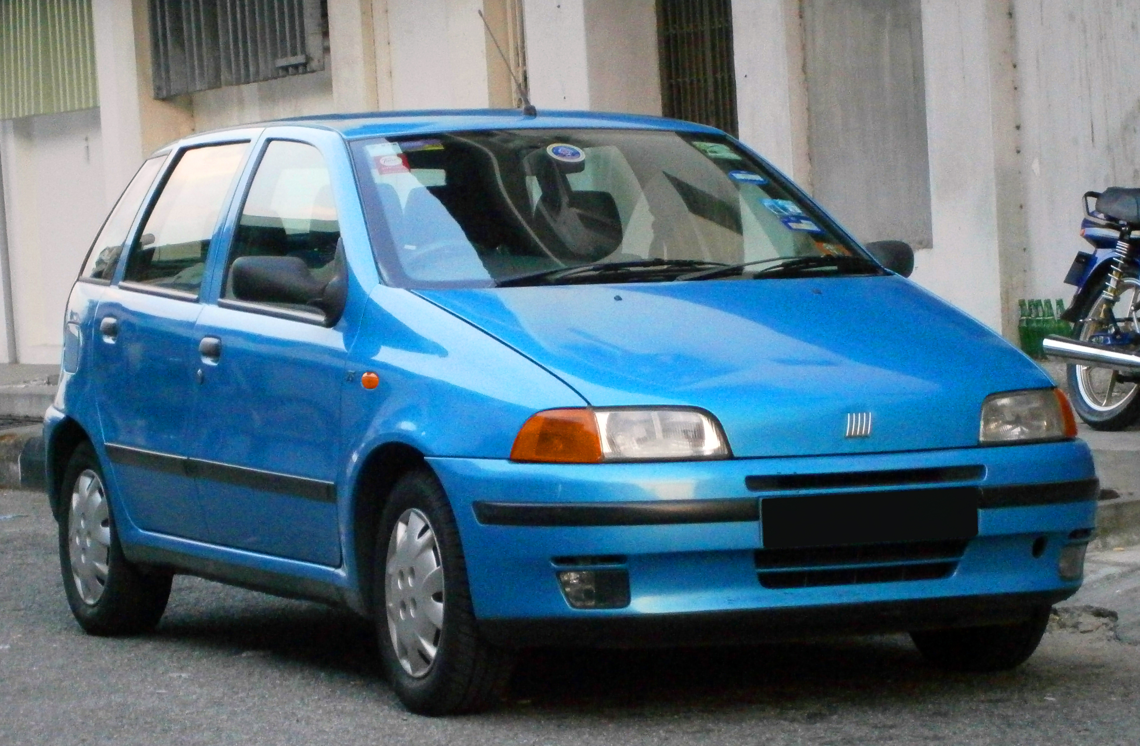 1993-1999 Fiat Punto SX (5-door hatchback) in Ipoh, Malaysia.Designed & Assembled in Italy